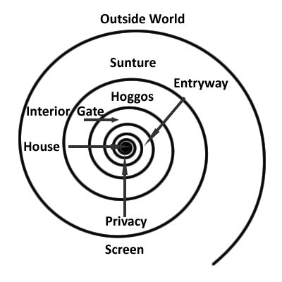 Mind map of a typical tapade environment in Fouta Djallon, Guinea.